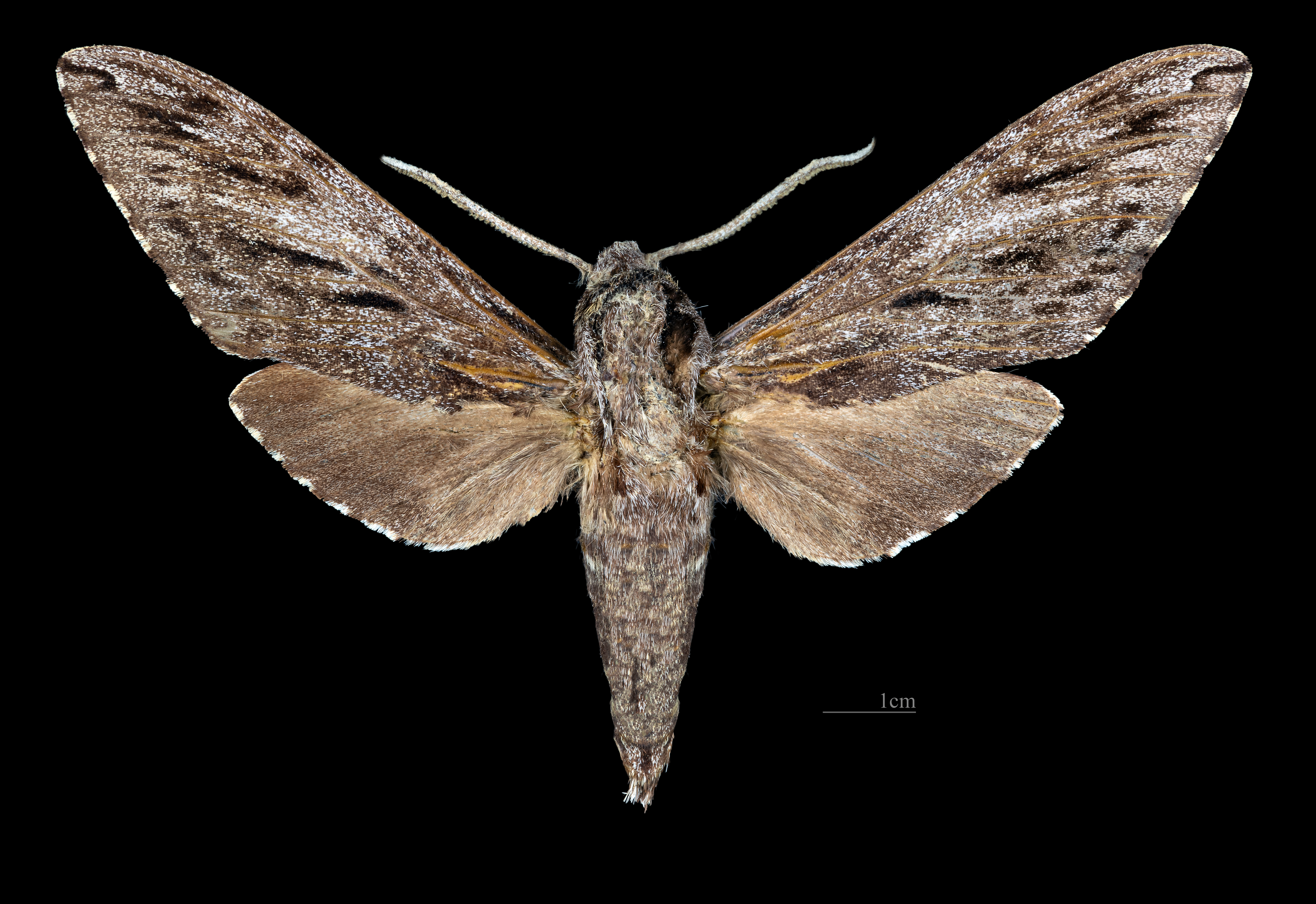 Sphinx formosana - Dorsal side Collection of the Mathematician Laurent Schwartz